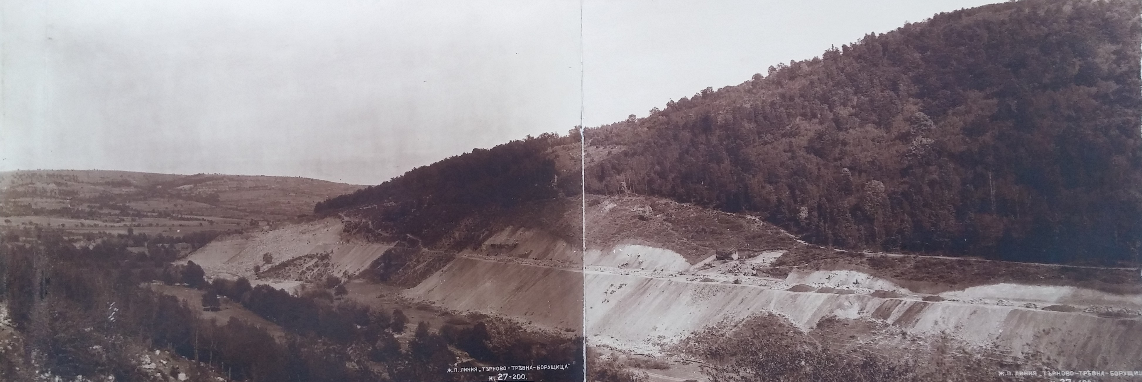 Construction of the railway line Veliko Tarnovo - Tryavna - Borushtitsa.